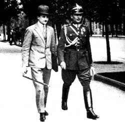 General Stefan Rowecki (1895-1943) - polish commander, officer of Polish Army, leader of the Home Army. Here with brother Stanisław Rowecki in Aleje Ujazdowskie around 1931.